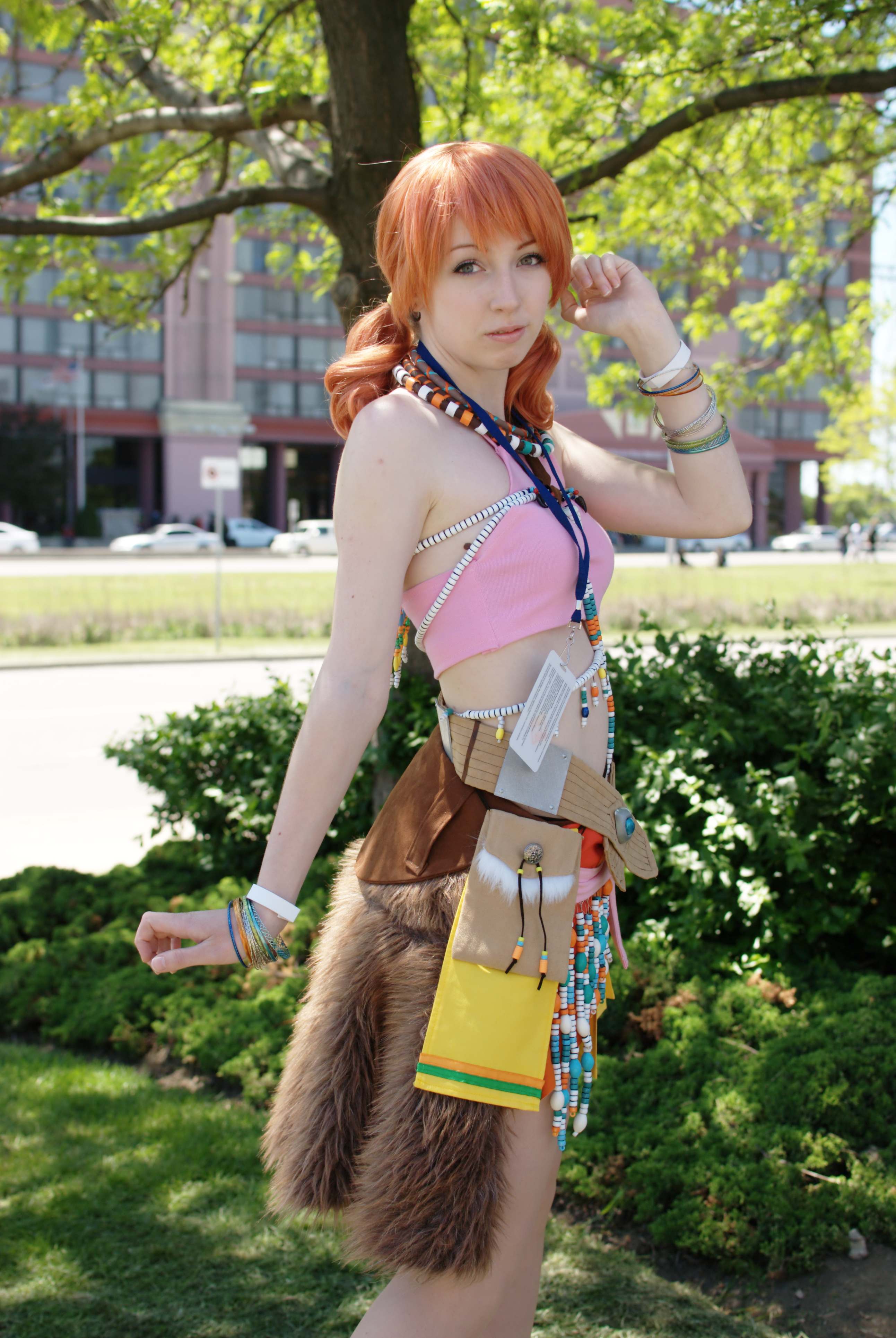 中文（台灣）: Anime North 2013，《最終幻想XIII》Oerba Dia Vanille的cosplayer。